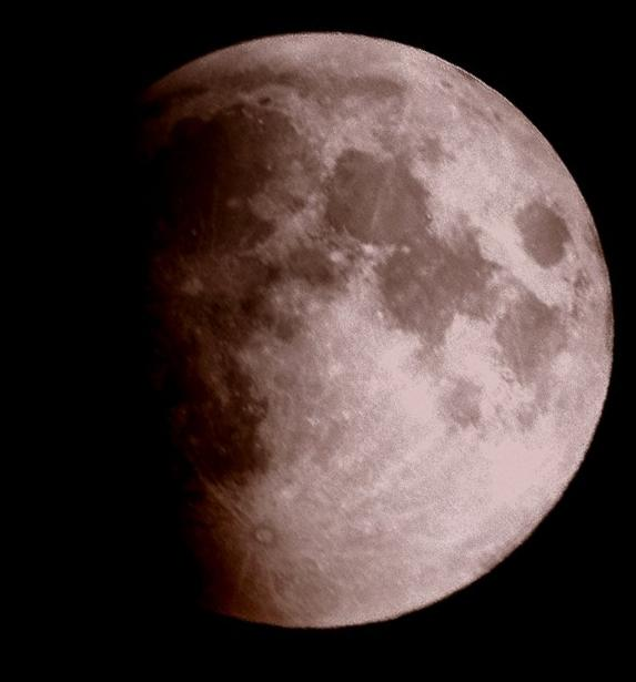 March 2007 lunar eclipse. The advancing shadow of Earth brings out detail on the lunar surface. The huge ray system emanating from the large impact crater Tycho is shown as the dominant feature on the southern hemisphere. The bronze-ish hue is produced by Rayleigh scattering as a result of the Moon being relatively close to the horizon at the time this image was captured. Author: Liam Gilmartin. Taken using a point-and-shoot digital camera and a small mass-market 4-inch Maksutov telescope. Simple eyepiece projection into the camera lens.